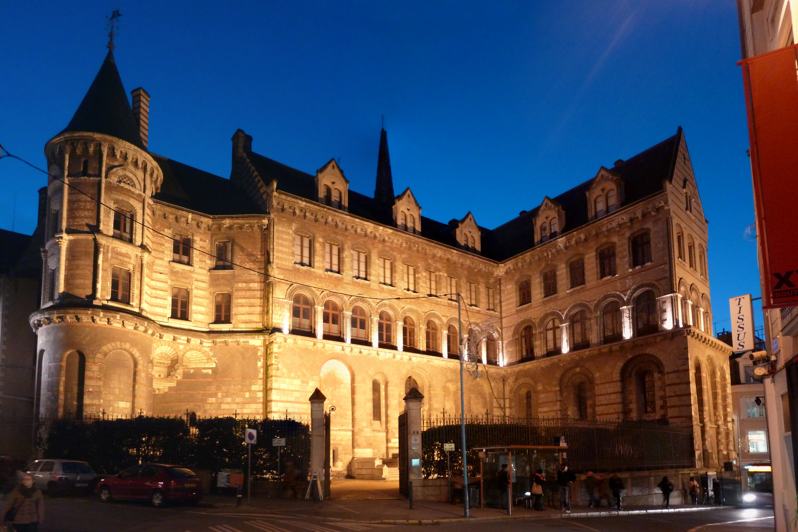 The Tau Palace by night, old Bishop's Palace of Angers, Maine-et-Loire, Pays de la Loire, France.